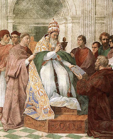 Pope Julius II as pope Gregory IX from Michelangelo Buonarotti